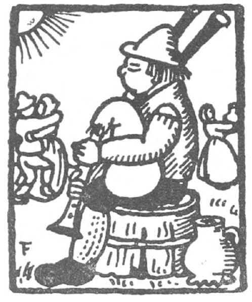 Illustrations Pieter Breughel, zoo heb ik u uit uwe werken geroken.